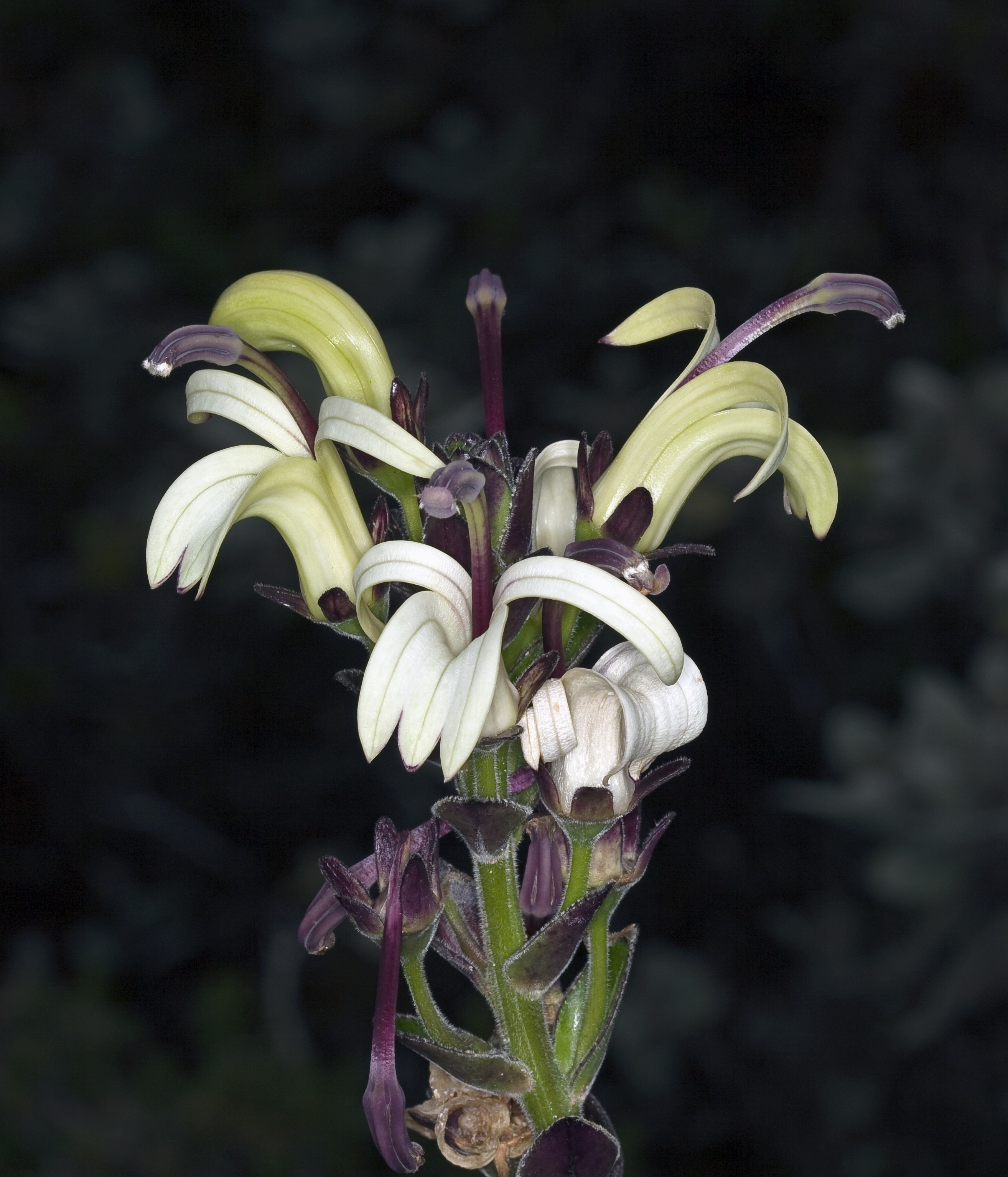 Lobelia villosa (alakai swamp lobelia). On the edge of a forest opening in boggy country in the vicinity of Kilohana Lookout, Alakai region, Kauai.